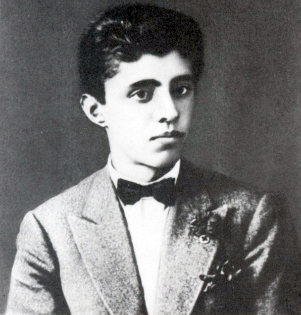 Enver Hoxha, aged 18, after the completion of his third year at the French Lycée in Gjirokastra, June 18, 1927.